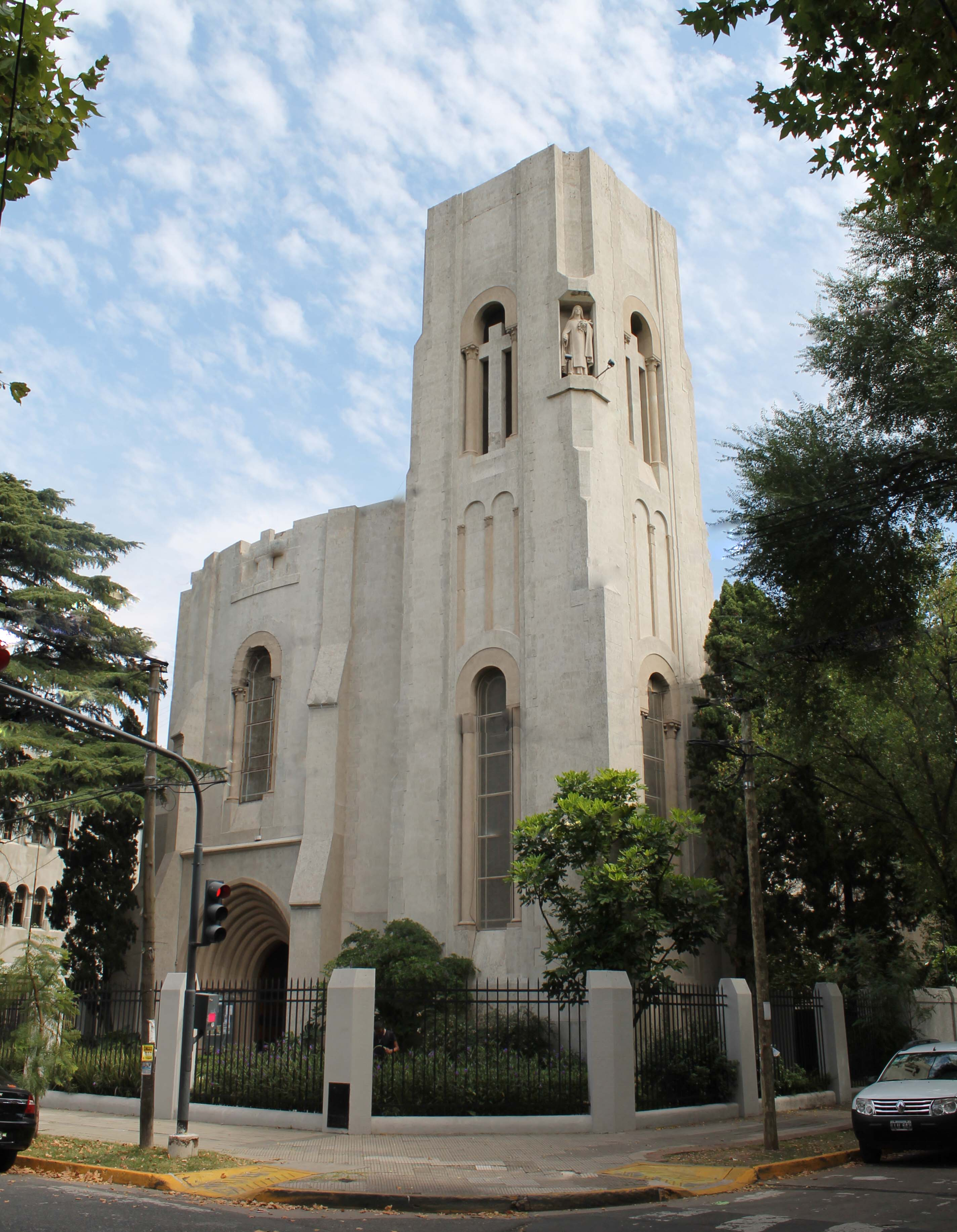 Santa Teresita del Nino Jesus church